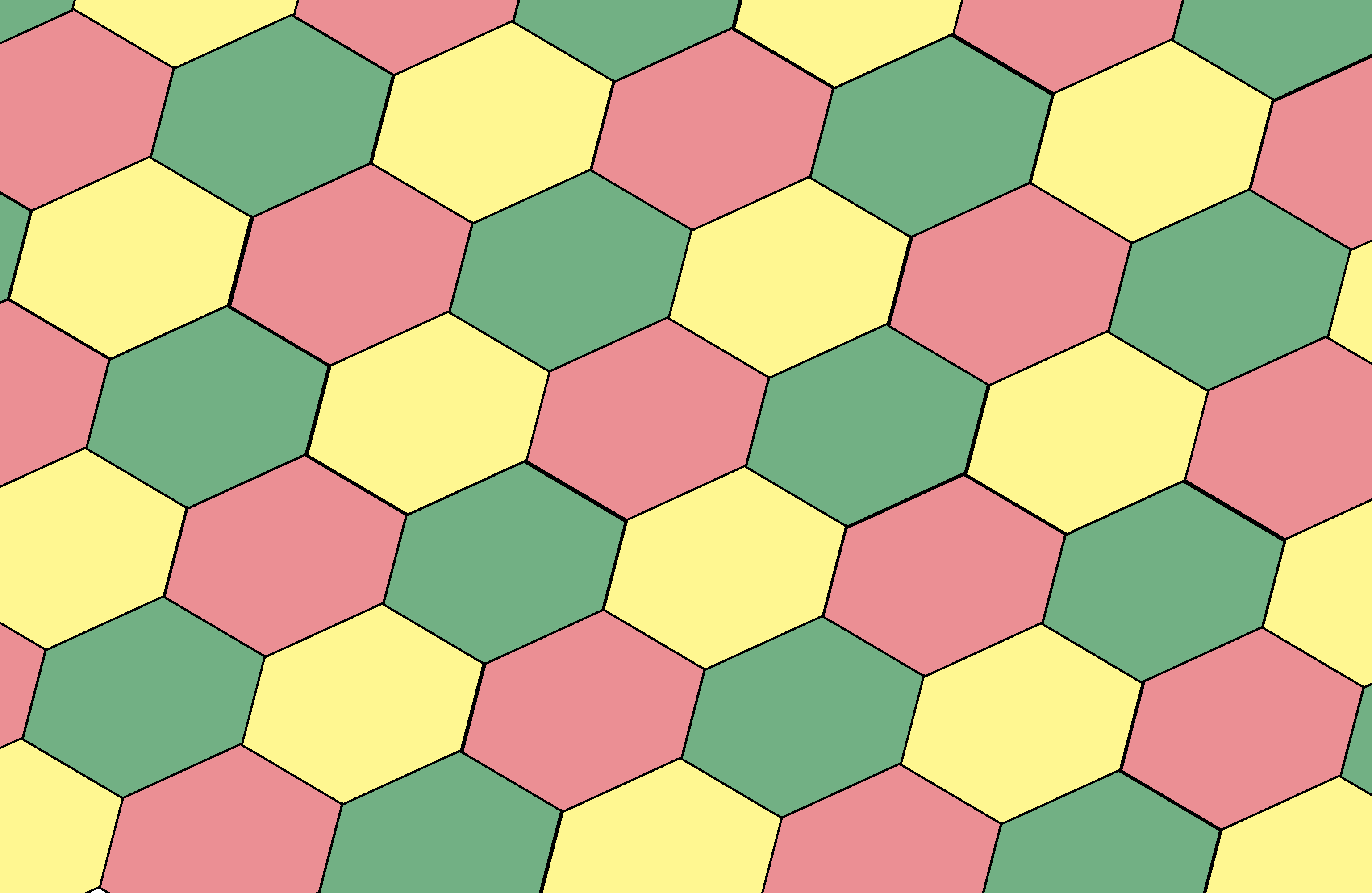 Example hexagonal tiling with centrosymmetric hexagons